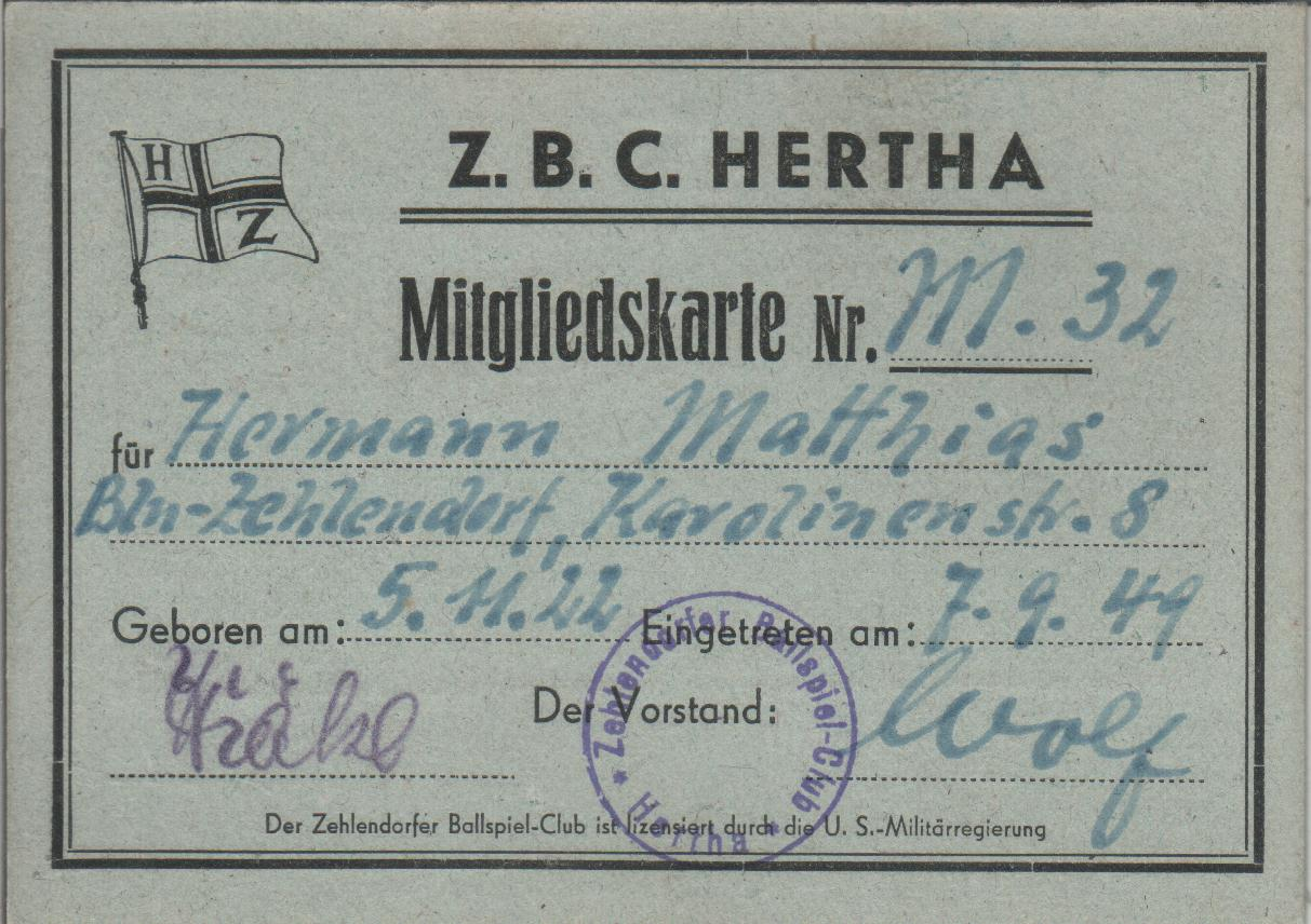 membership card for Z.B.C. Hertha Zehlendorf Berlin